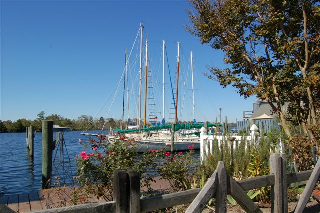 Columbia, NC. Photo by Ingrid Lemme [1] October 2006 of the Scuppernong River water front in Columbia, NC on the Inner Banks. Please contact me for a larger version.